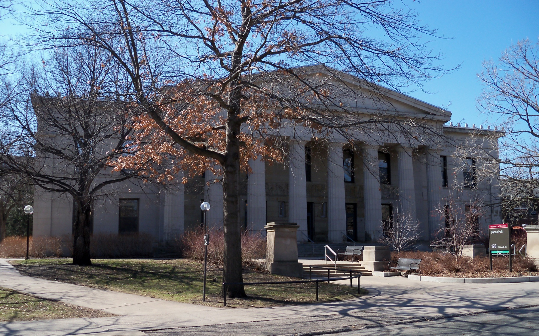 Burton Hall at the University of Minnesota-Twin Cities. Located on the East Bank of the Minneapolis campus.